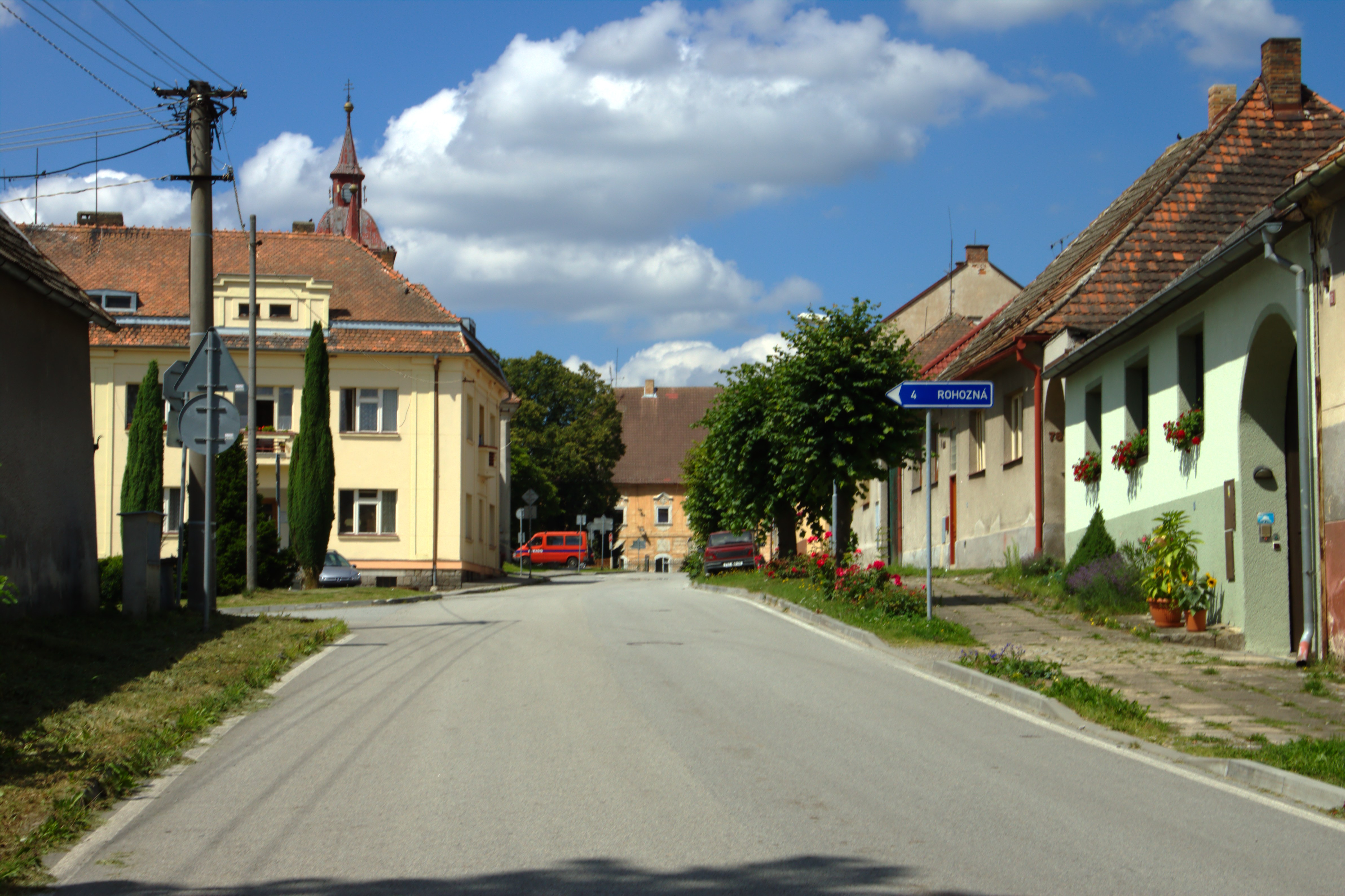 Central part of the town of Nový Rychnov in Pelhřimov District, Vysočina Region, CZ